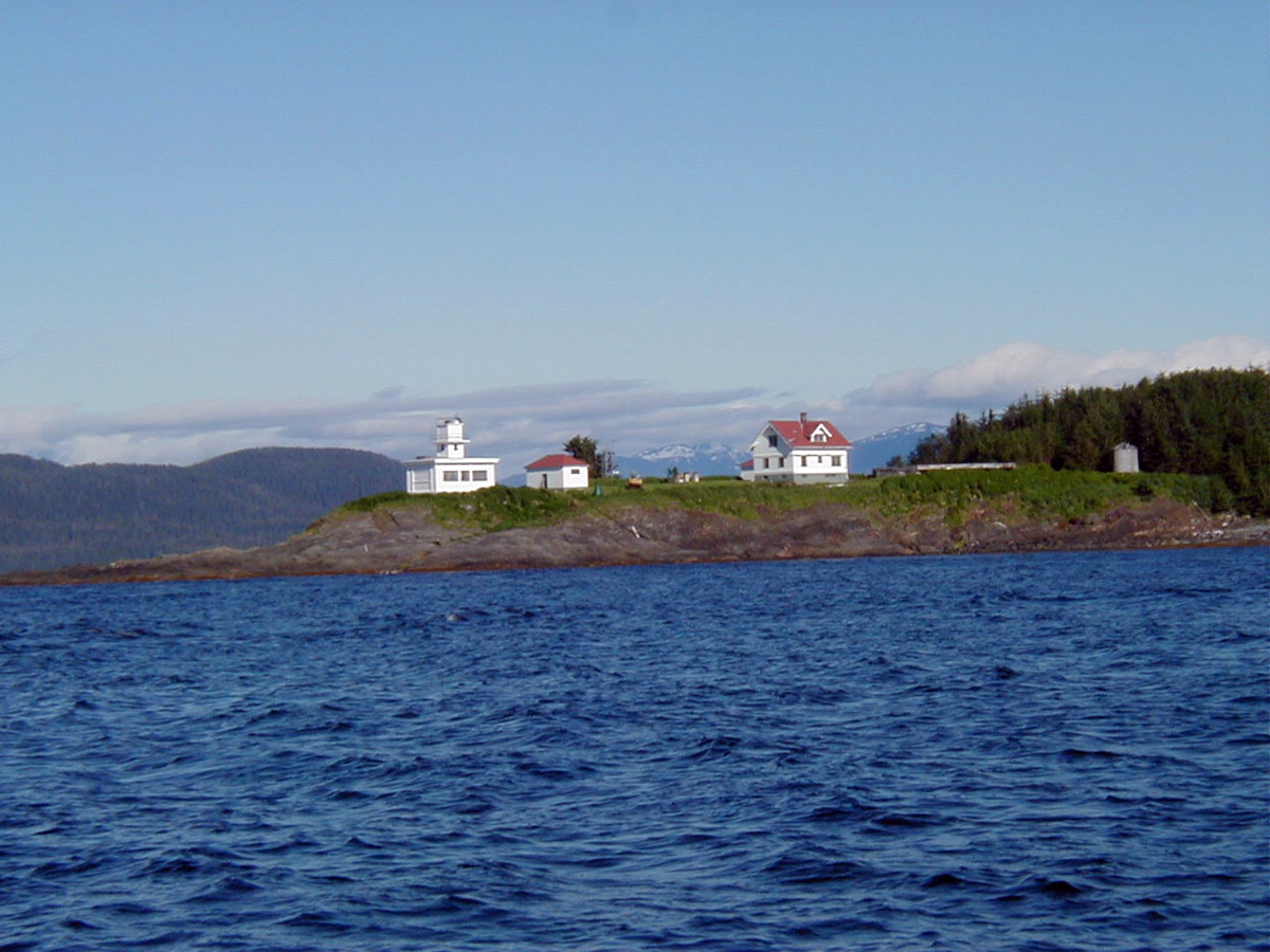 Point Retreat Light - Mansfield Peninsula, Admiralty Island.